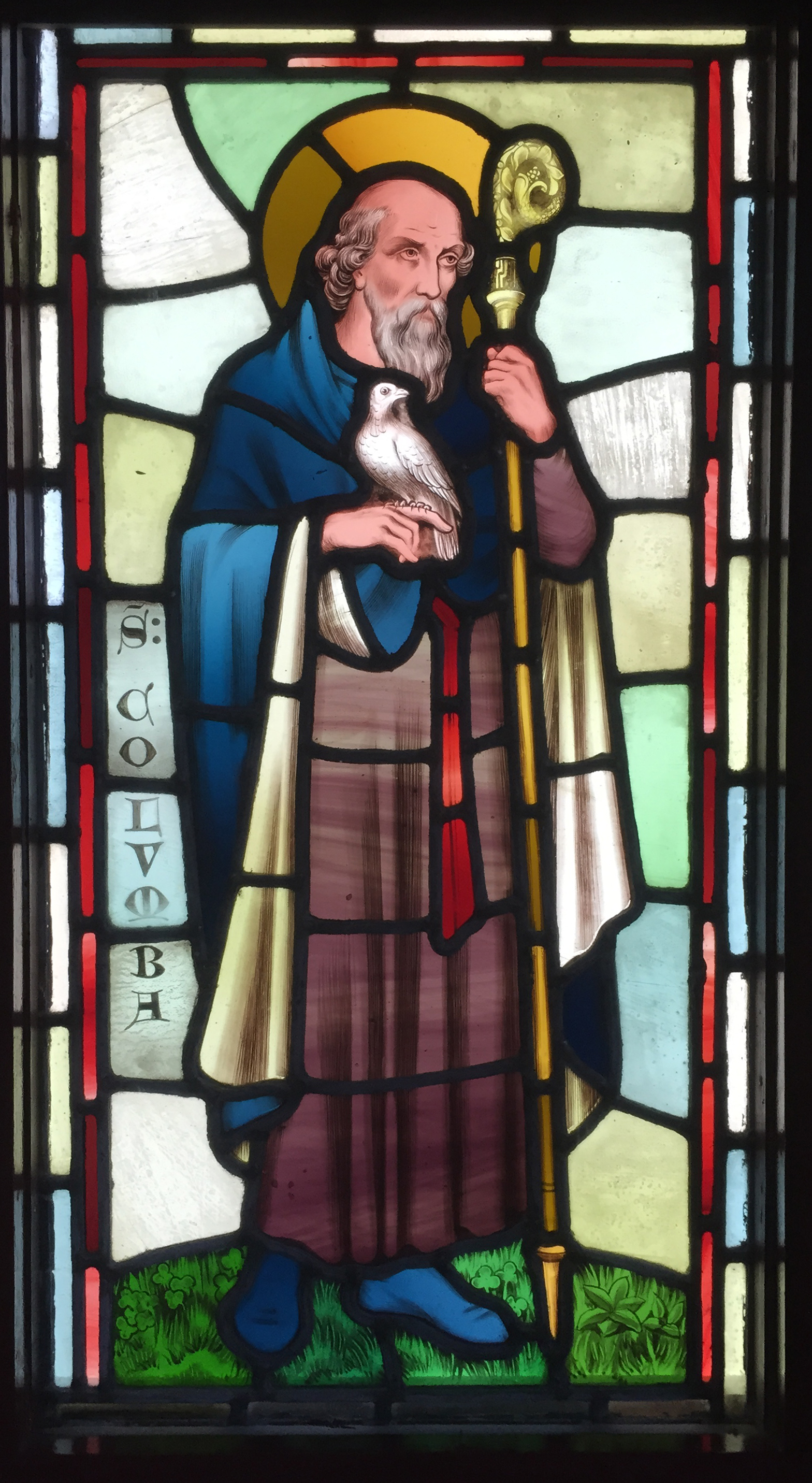 Stained glass chapel panel, originally designed by William Burges (2 December 1827 – 20 April 1881)